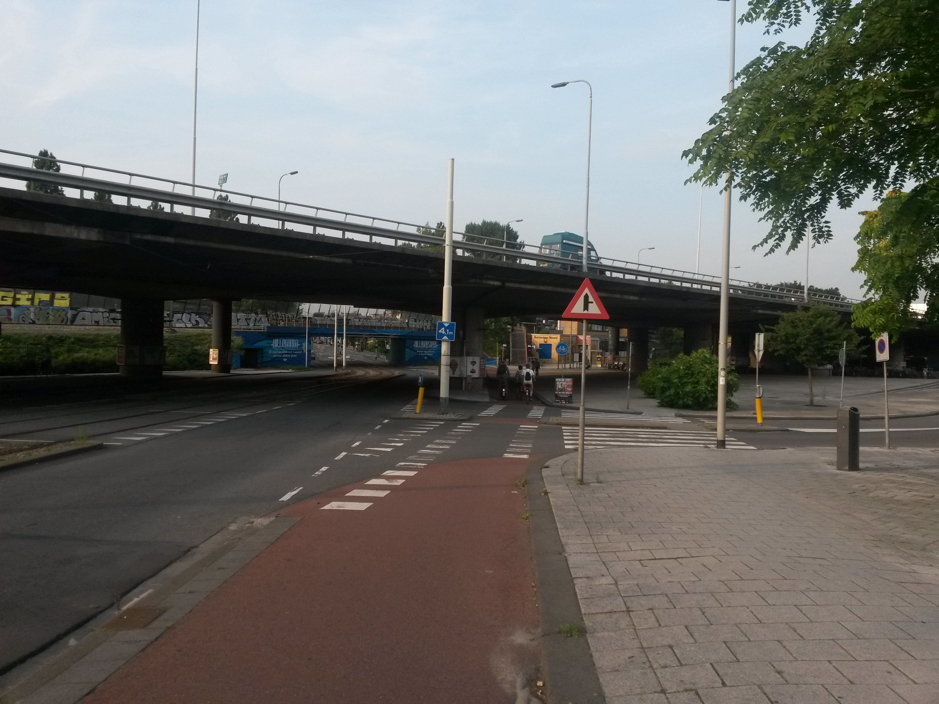 "Het Muizengaatje" near Hillegersberg